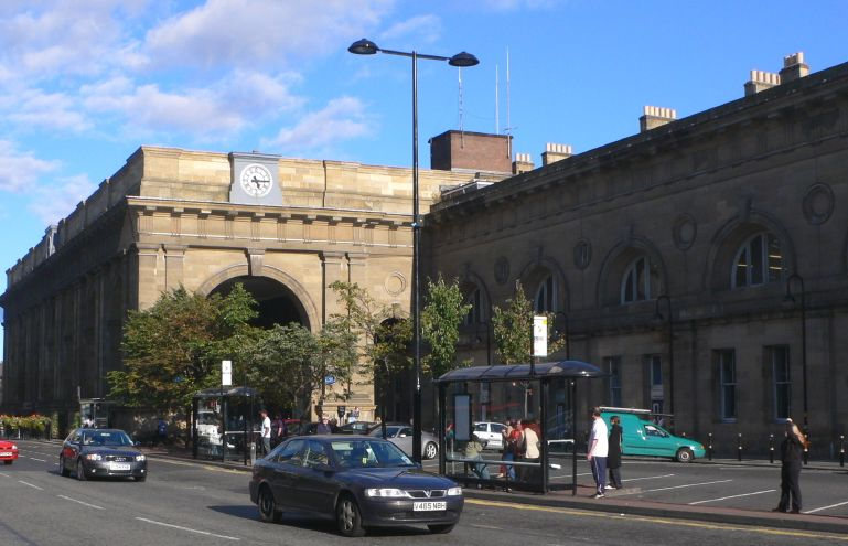 Newcastle station, August 2006. Crop version of original